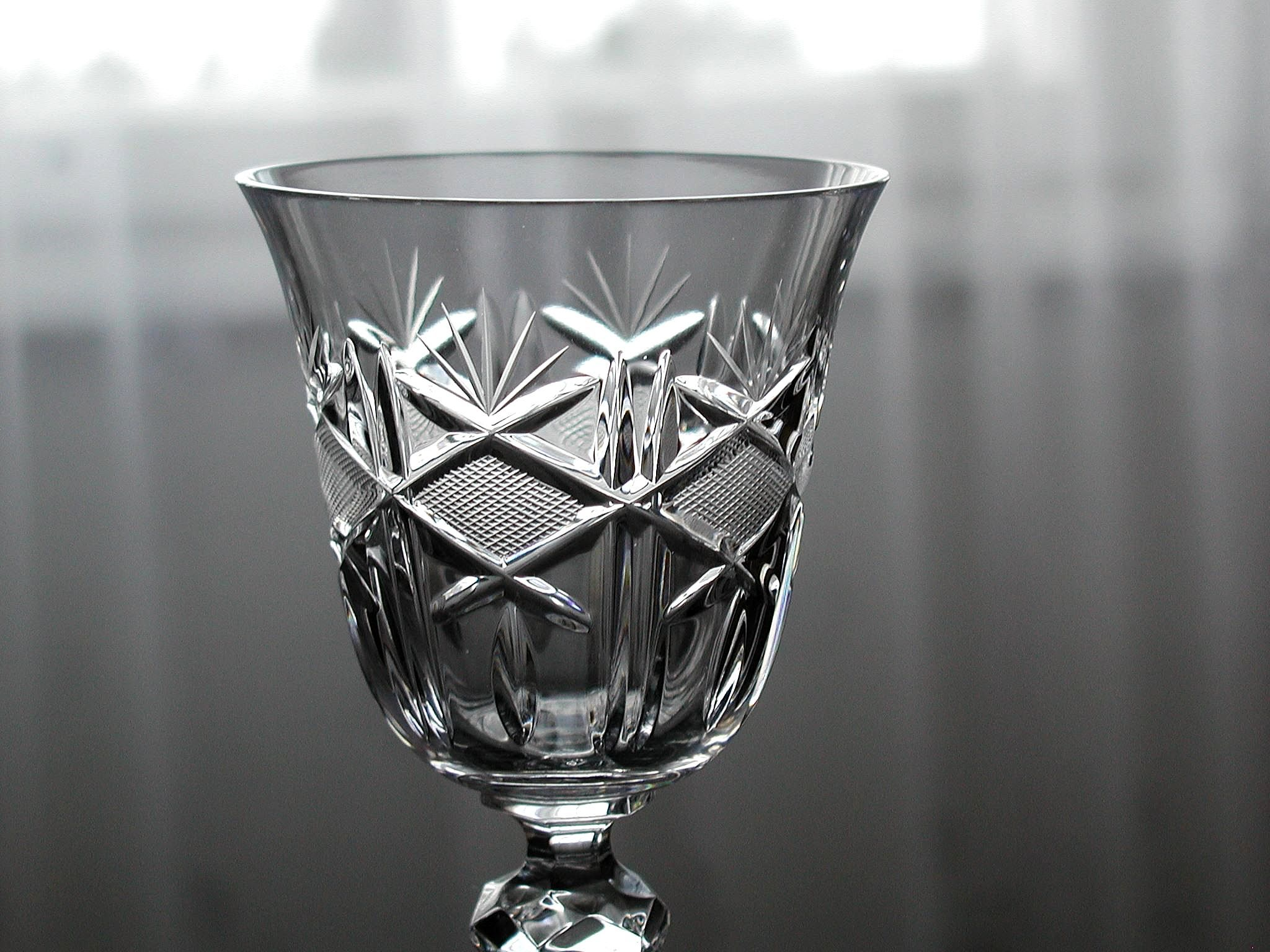 Image title: Crystal glass Image from Public domain images website